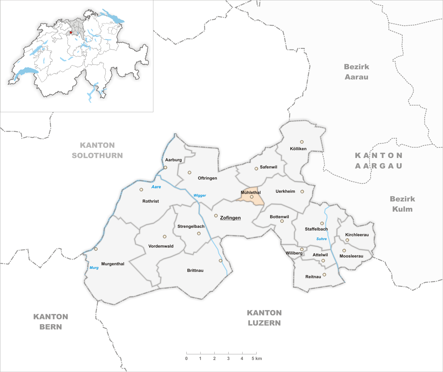 Municipality Mühlethal